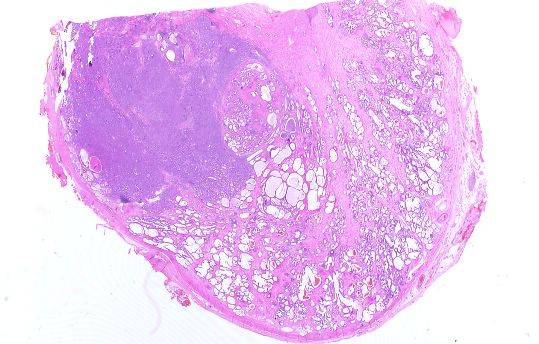 Whole slide of half a prostate, scanned (Epson Perfection 1670 scanner)